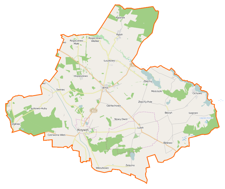 Map of Gmina Krzywiń, Poland This map of Krzywiń (gmina) was created from OpenStreetMap project data, collected by the community. This map may be incomplete, and may contain errors. Don't rely solely on it for navigation. Border coordinates52.073816.7054←↕→17.018051.9121